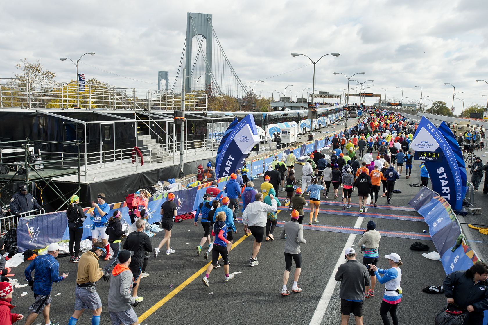 Scenes from Staten Island side of TCS NYC Marathon on Sunday, November 2, 2014. Photo: Metropolitan Transportation Authority / Patrick Cashin